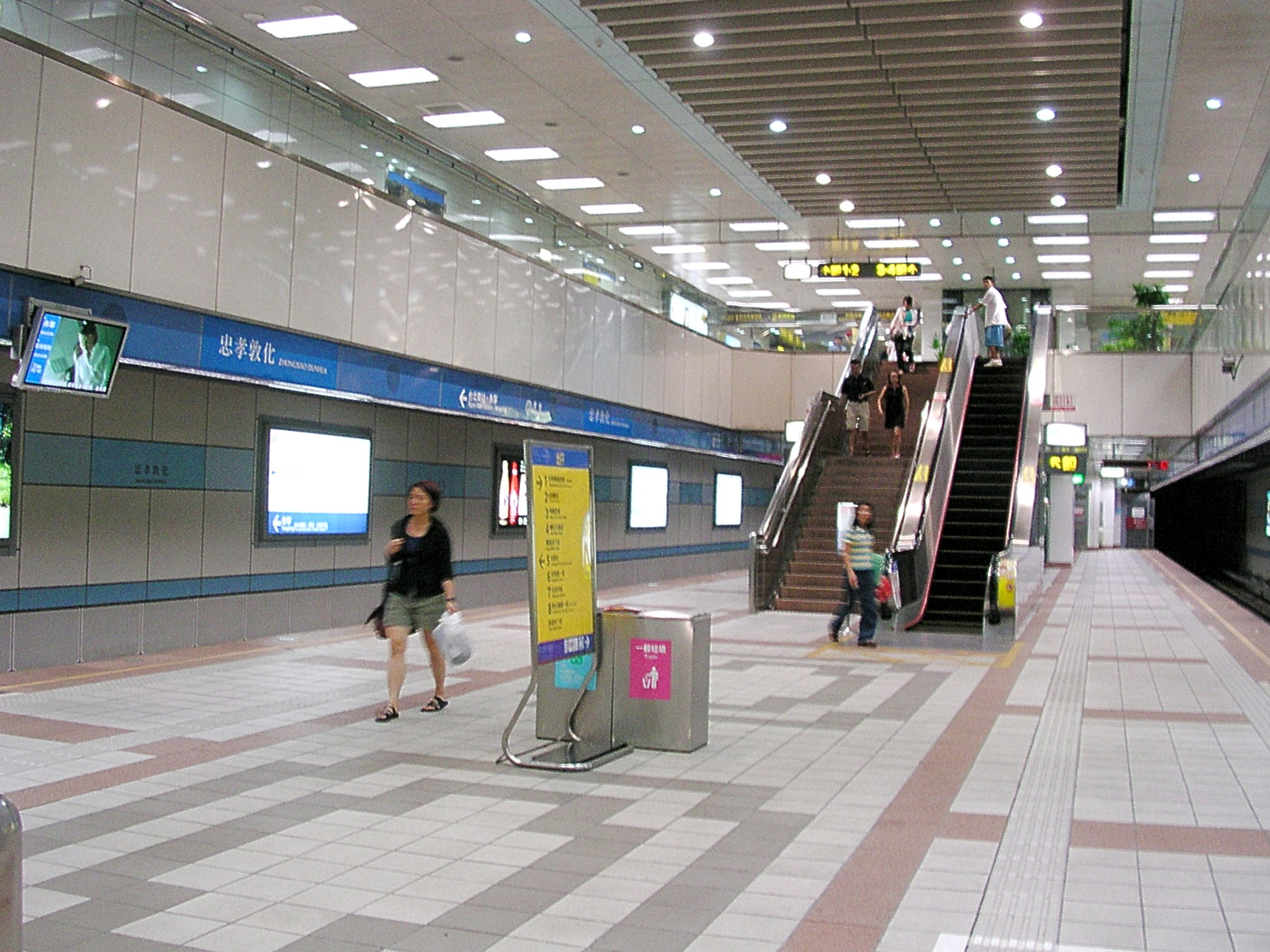 Inside Taipei MRT Zhongxiao Dunhua Station.